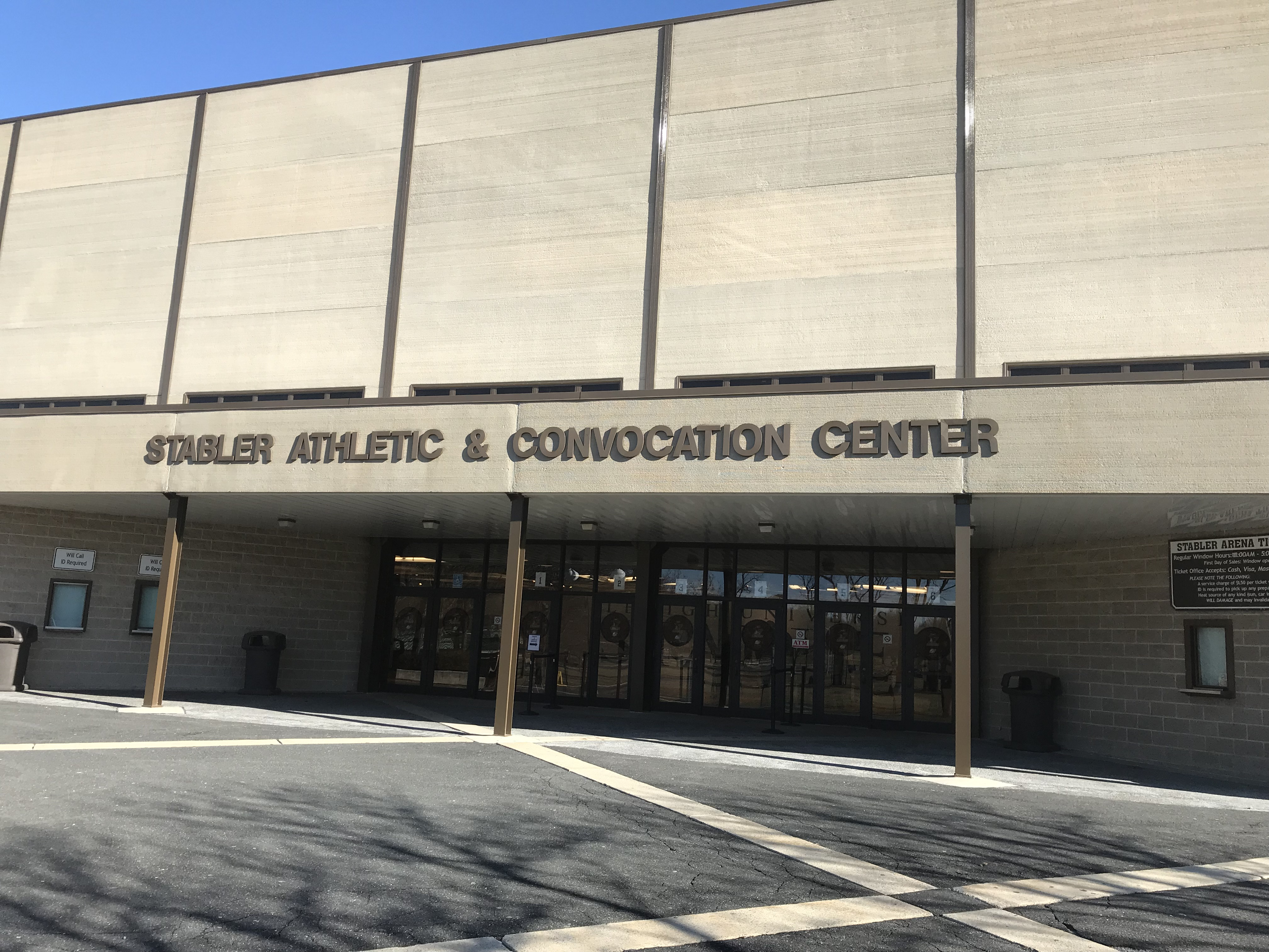 The entrance to Stabler Arena on the campus of Lehigh University in Bethlehem, PA.